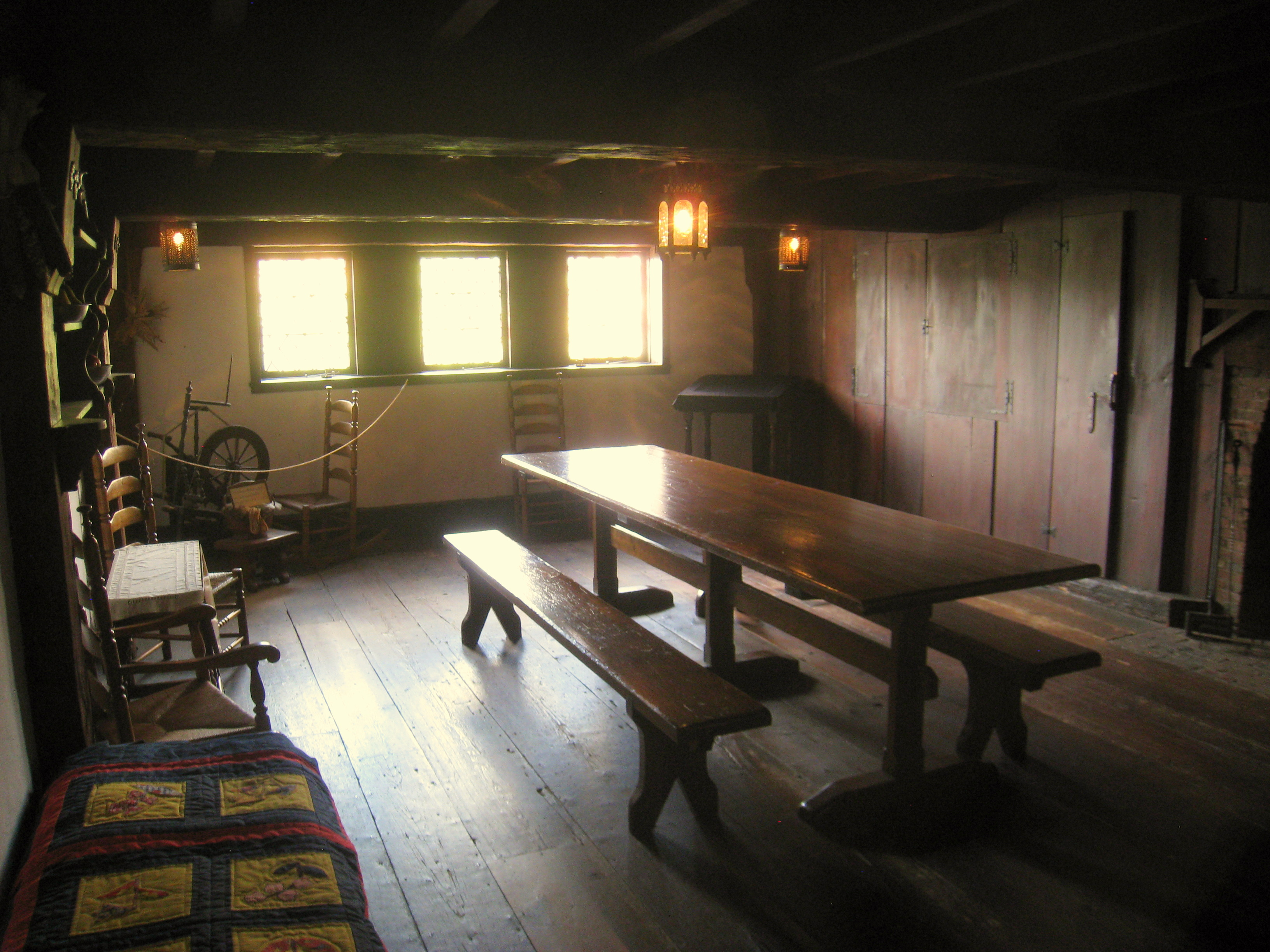 Early American Room, Cathedral of Learning, University of Pittsburgh, Pittsburgh, Pennsylvania, USA.